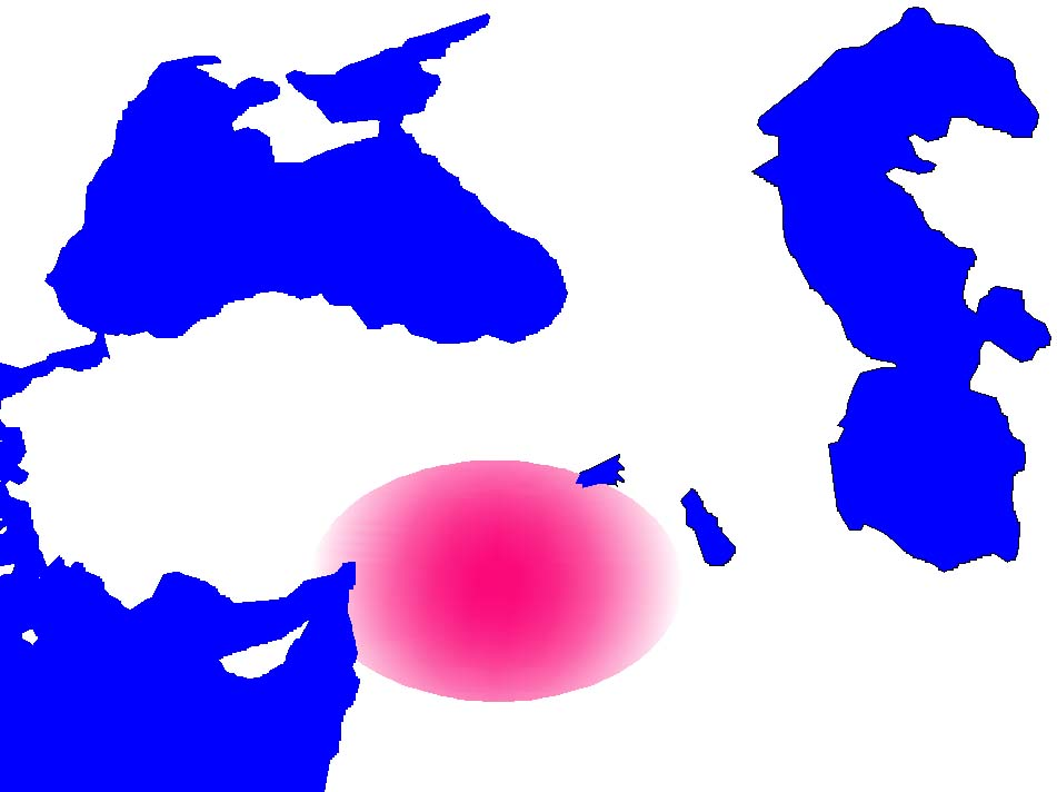 Probable homeland of M34 sub-clade